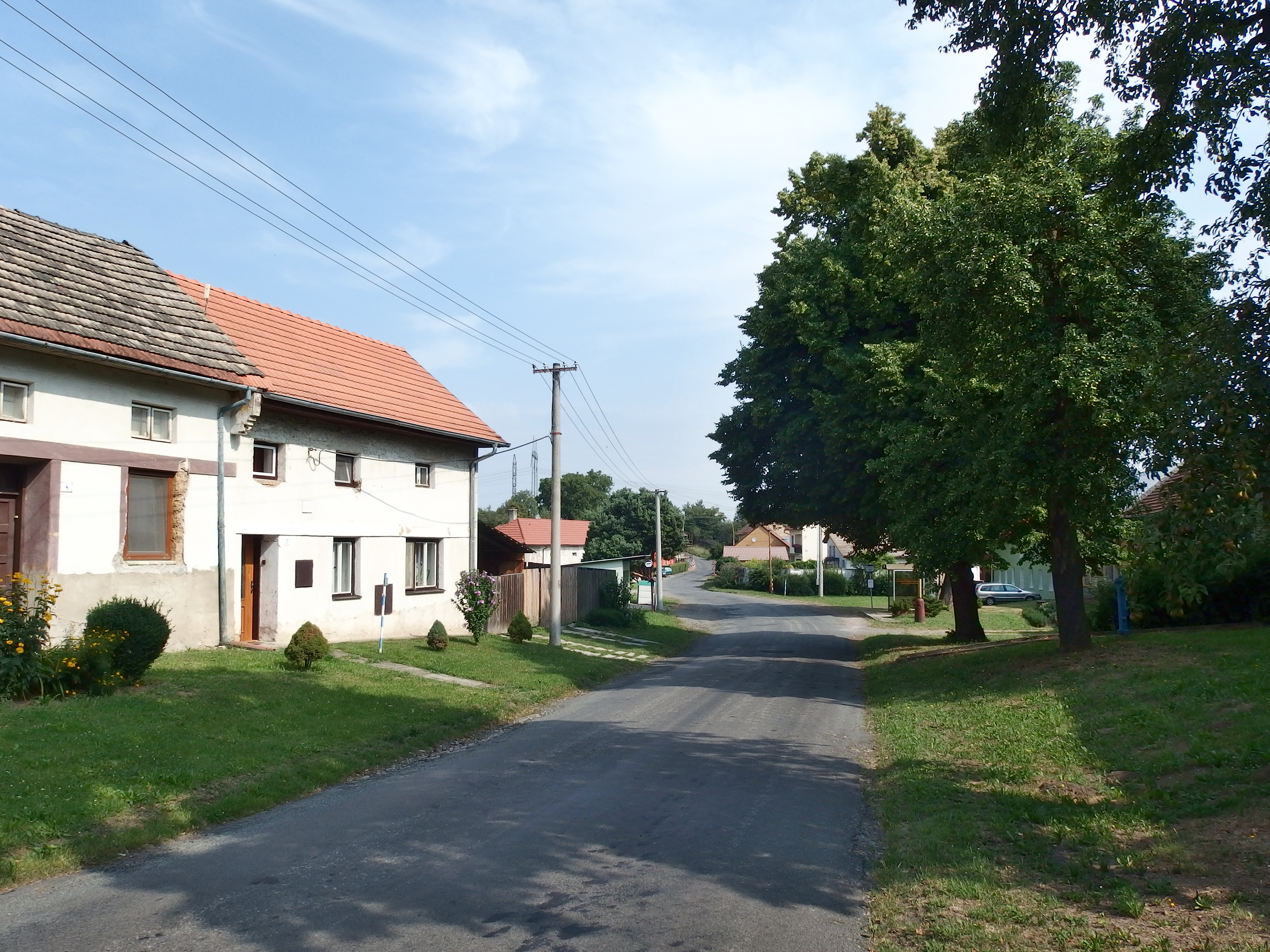 Kostelany, Kroměříž District, Czech Republic, part Lhotka.